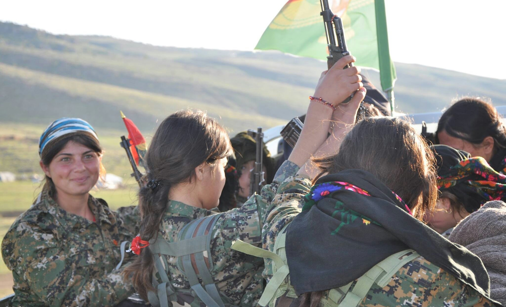 Female Yezidi resistance fighters of the Êzidxan Women's Units (YJÊ), September 2015 in Sinjar